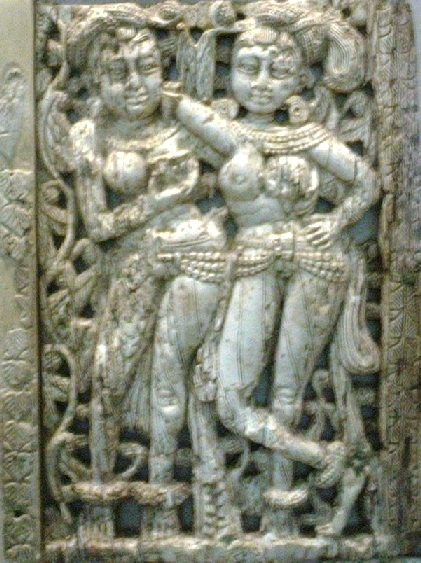 Begram ivory. Personal photograph taken at the Musee Guimet, Paris